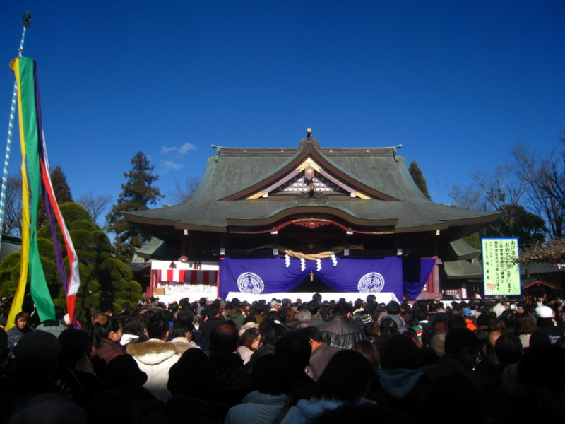 Photograph of Kasama Inari Shrine, Ibaraki Prefecture, Japan